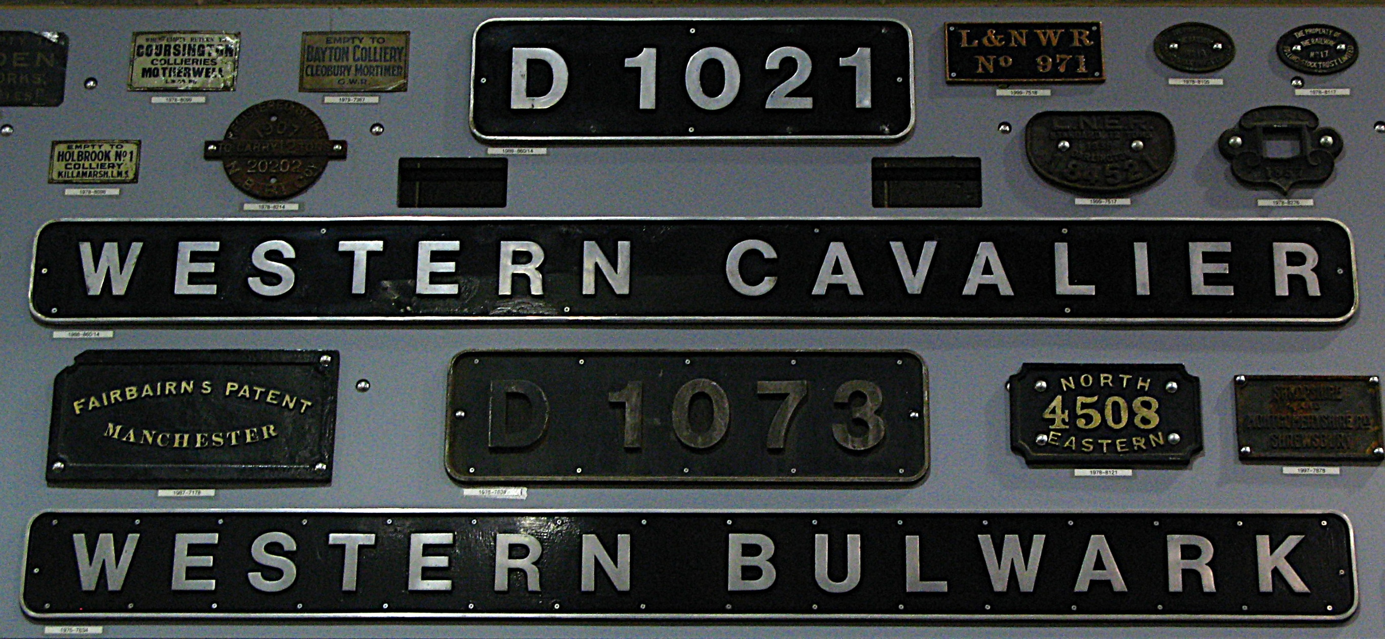 The a collection of locomotive name and builders' plates on display at the National railway Museum, York, England. These include of British Railways Class 52 locomotives D1021 Western Cavalier and D1073 Western Bulwark.